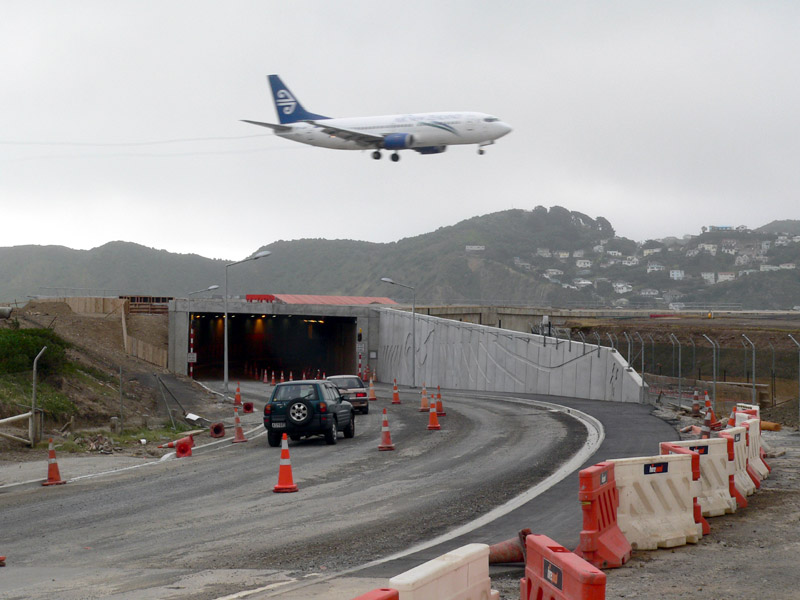 Taken near Wellington International Airport, 14 October 2006.